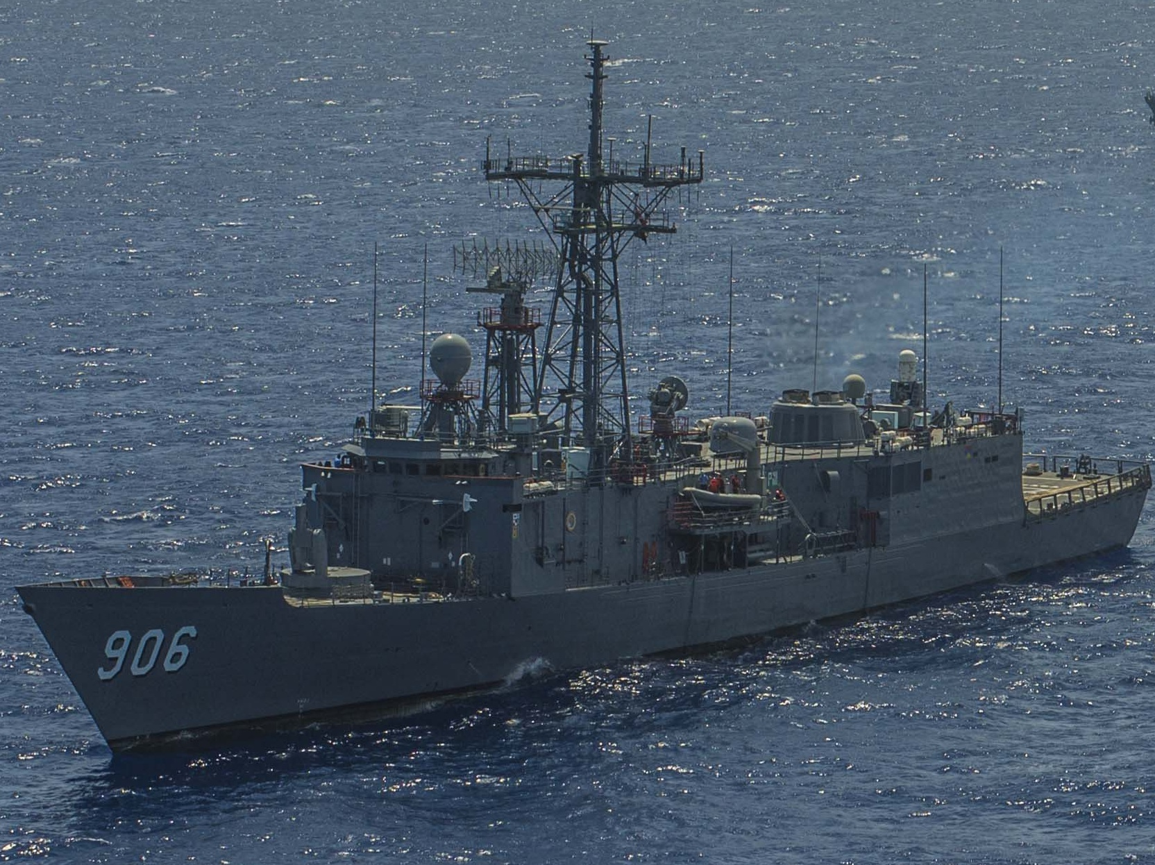 Crop of 130520-N-KA046-341. MEDITERRANEAN SEA (May 20, 2013) Rigid-hull inflatable boats (RHIB) with Sailors from the guided-missile destroyer USS Gravely (DDG 107) approach the Egyptian navy ship ENS Toushka (FFG 906) during a passing exercise. Gravely, homeported in Norfolk, Va., is on a scheduled deployment supporting maritime security operations and theater security cooperation efforts in the U.S. 6th Fleet area of responsibility.